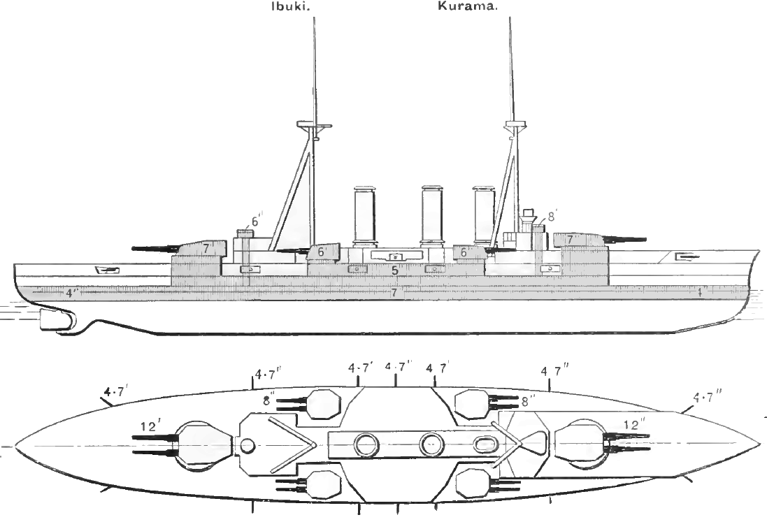 Sketch of the Japanese armoured cruiser Ibuki class (armour is darkened).